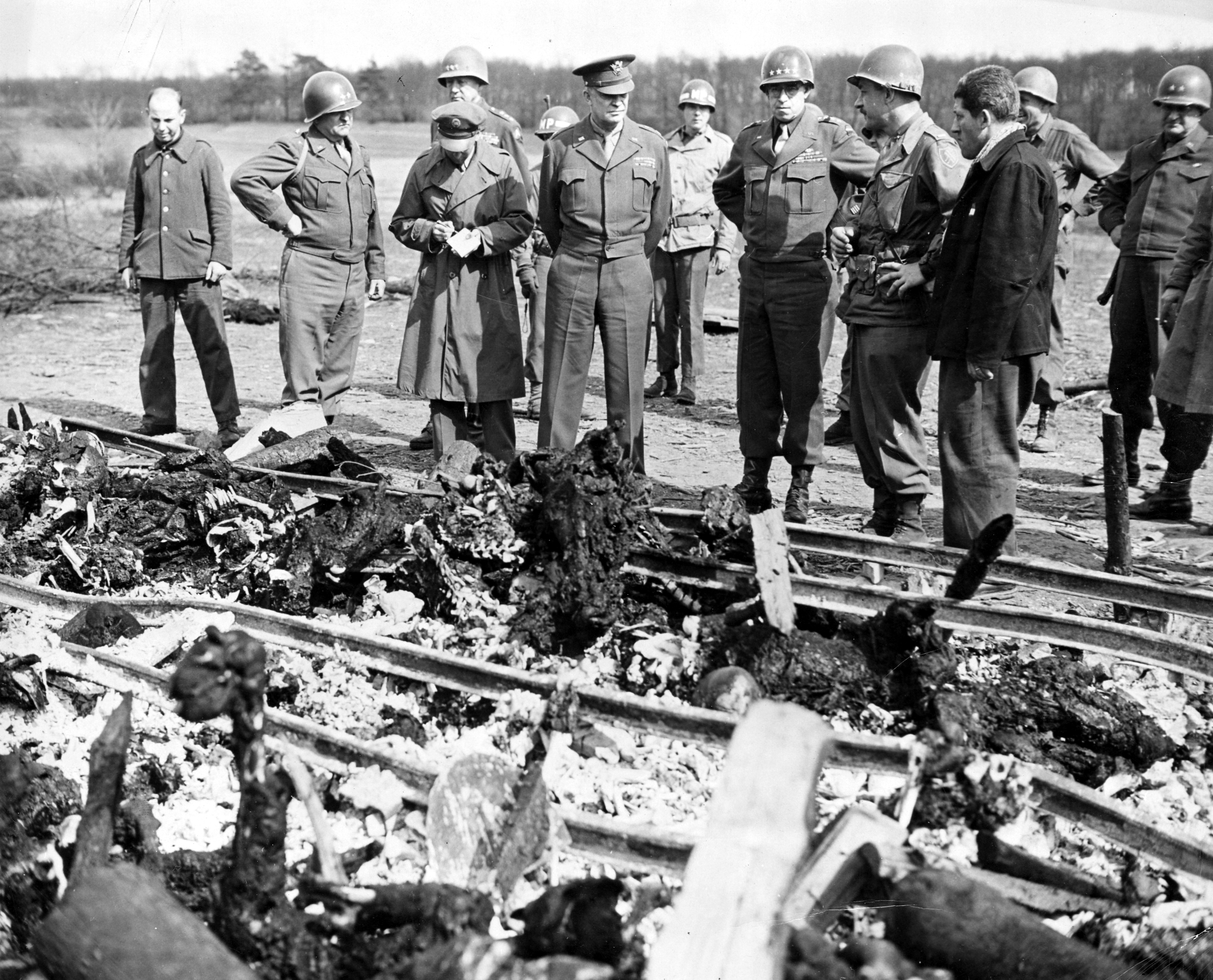 While on an inspection tour of the newly liberated Ohrdruf concentration camp, General Dwight Eisenhower and a party of high ranking U.S. Army officers, including Generals Bradley, Patton, and Eddy, view the charred remains of prisoners that were burned upon a section of railroad track during the evacuation of the camp. Also pictured is Jules Grad (third from the left taking notes), correspondent for the "Stars and Stripes" U.S. Army newspaper.